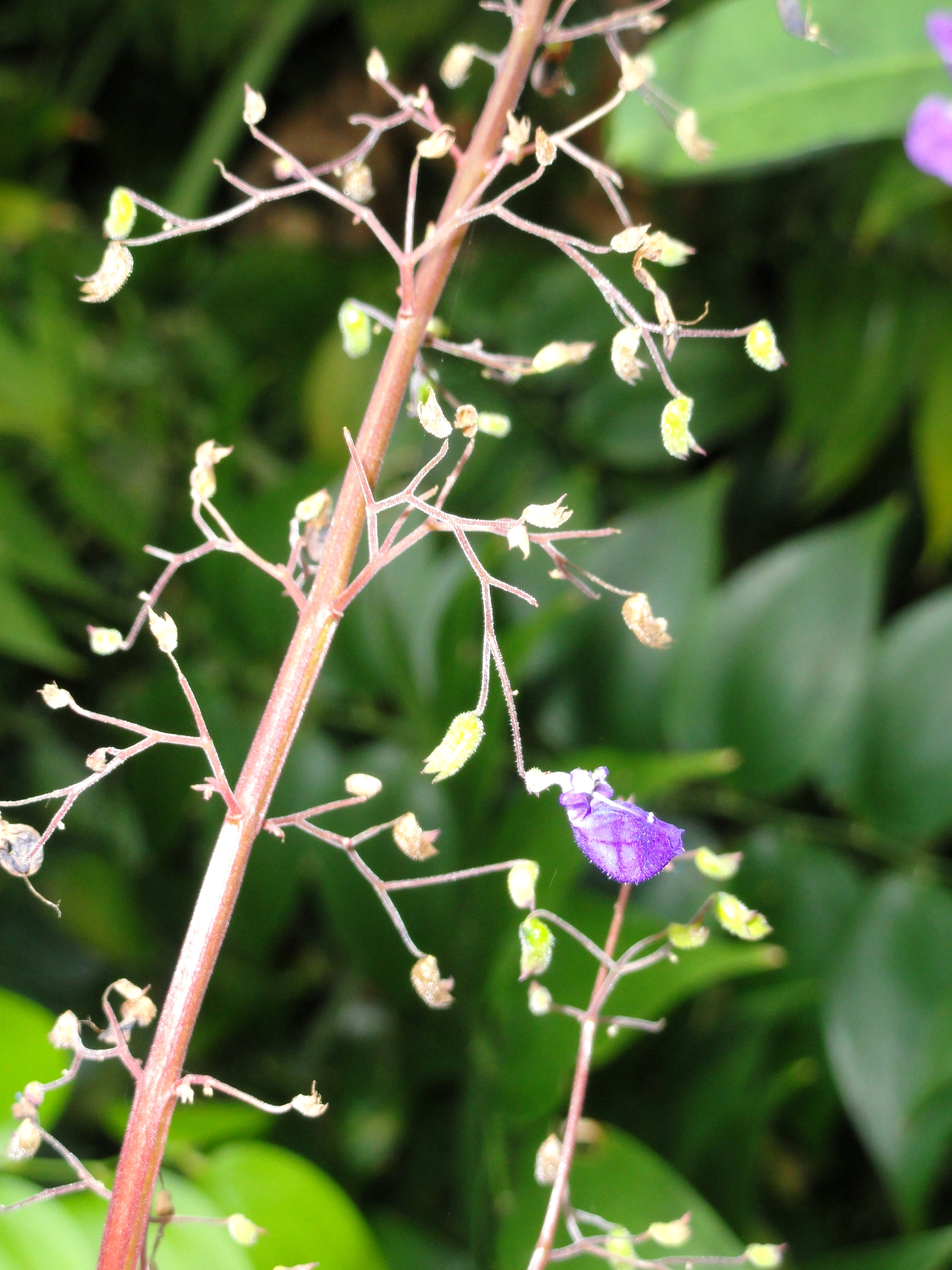 Botanical specimen in the University of Copenhagen Botanical Garden, Copenhagen, Denmark.